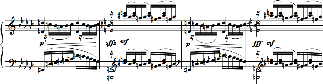 The second section in Six Moments Musicaux, No. 2. The piece, composed by Sergei Rachmaninoff in 1896 was published before 1923, and thus is in the public domain.